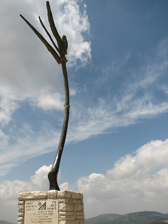 Angel for Jerusalem, monument to Else Lasker-Schüler from Horst Meister in Aminadav Forest in Jerusalem.